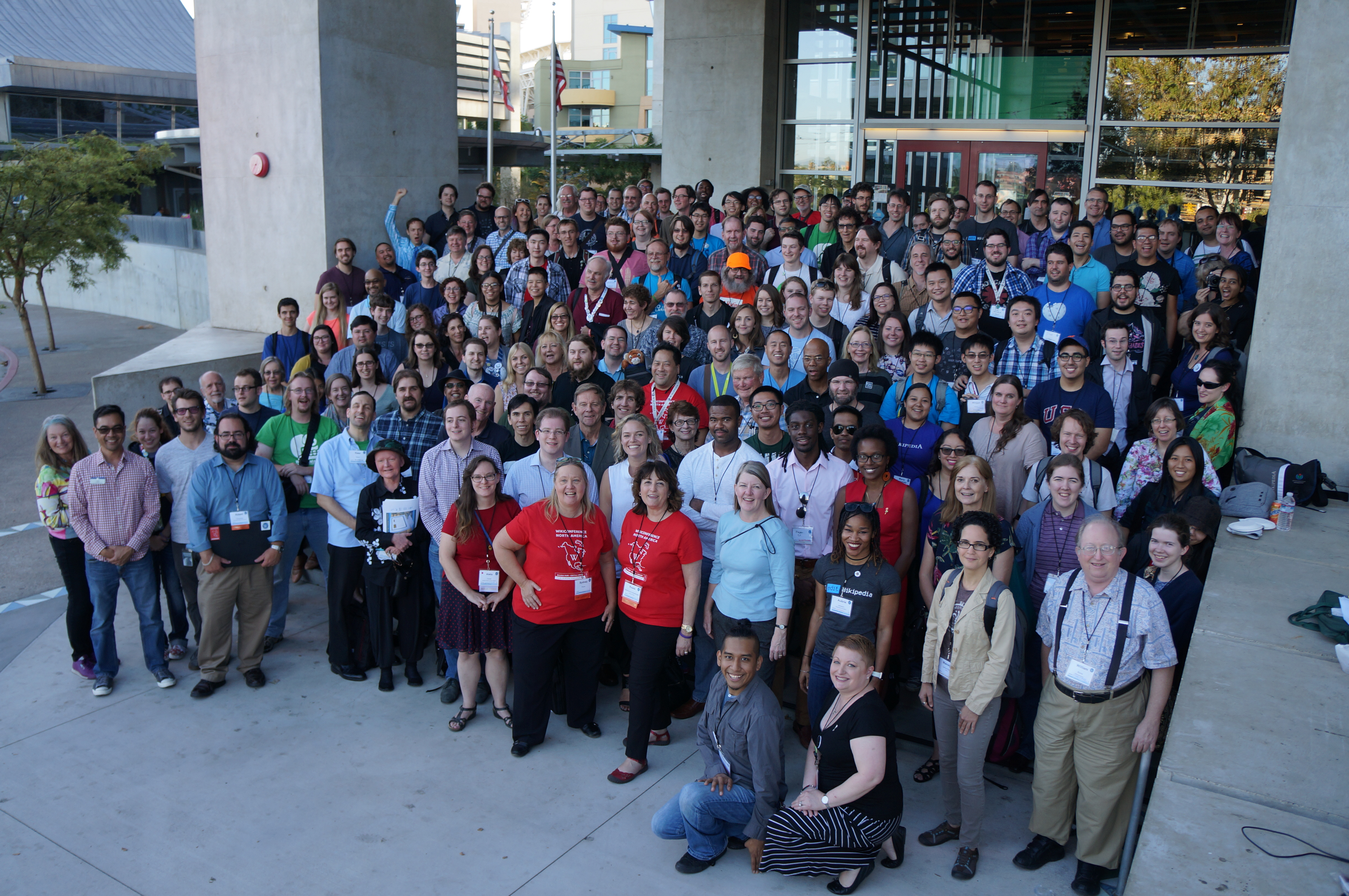 In October 2016, the Wikiconference North America 2016, the attendees